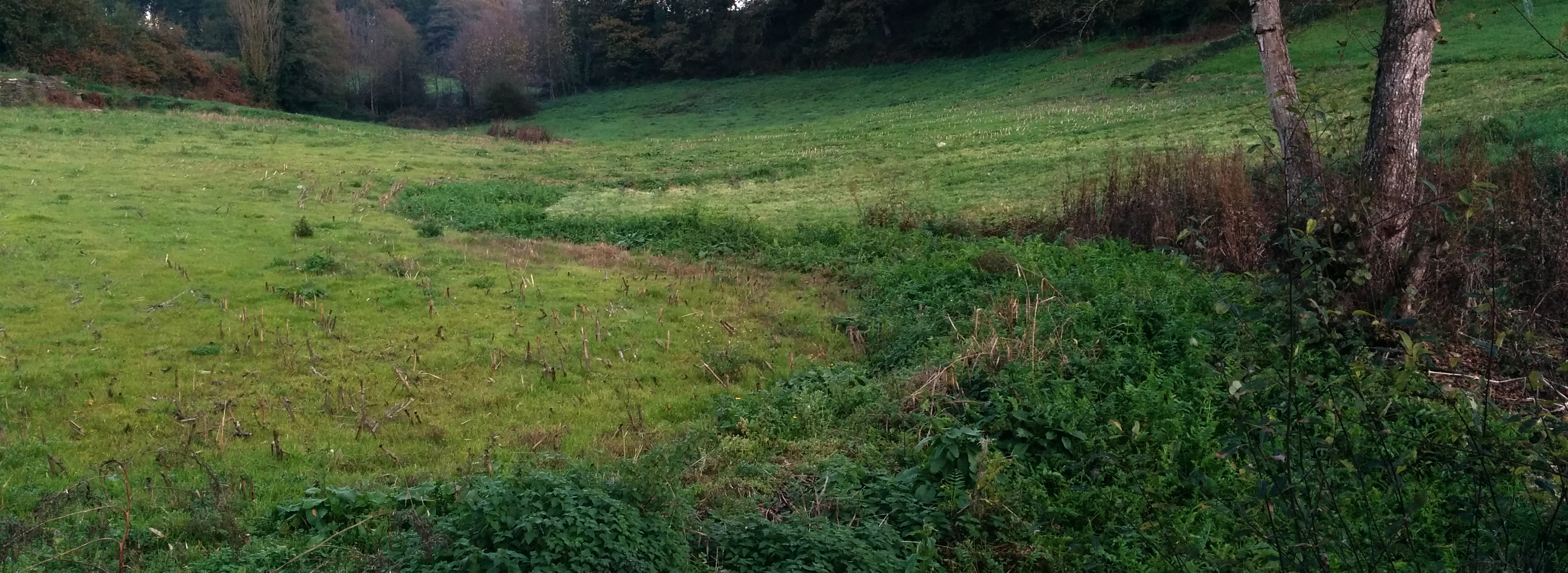 Argusende Brook, a left tributary of the Miño River, between the hamlets of A Eirexe and Albares, in the municipality of Lugo, province of Lugo, Galicia, Spain. The confluence is a few meters downstream, through Lugo's old sewage treatment plant.